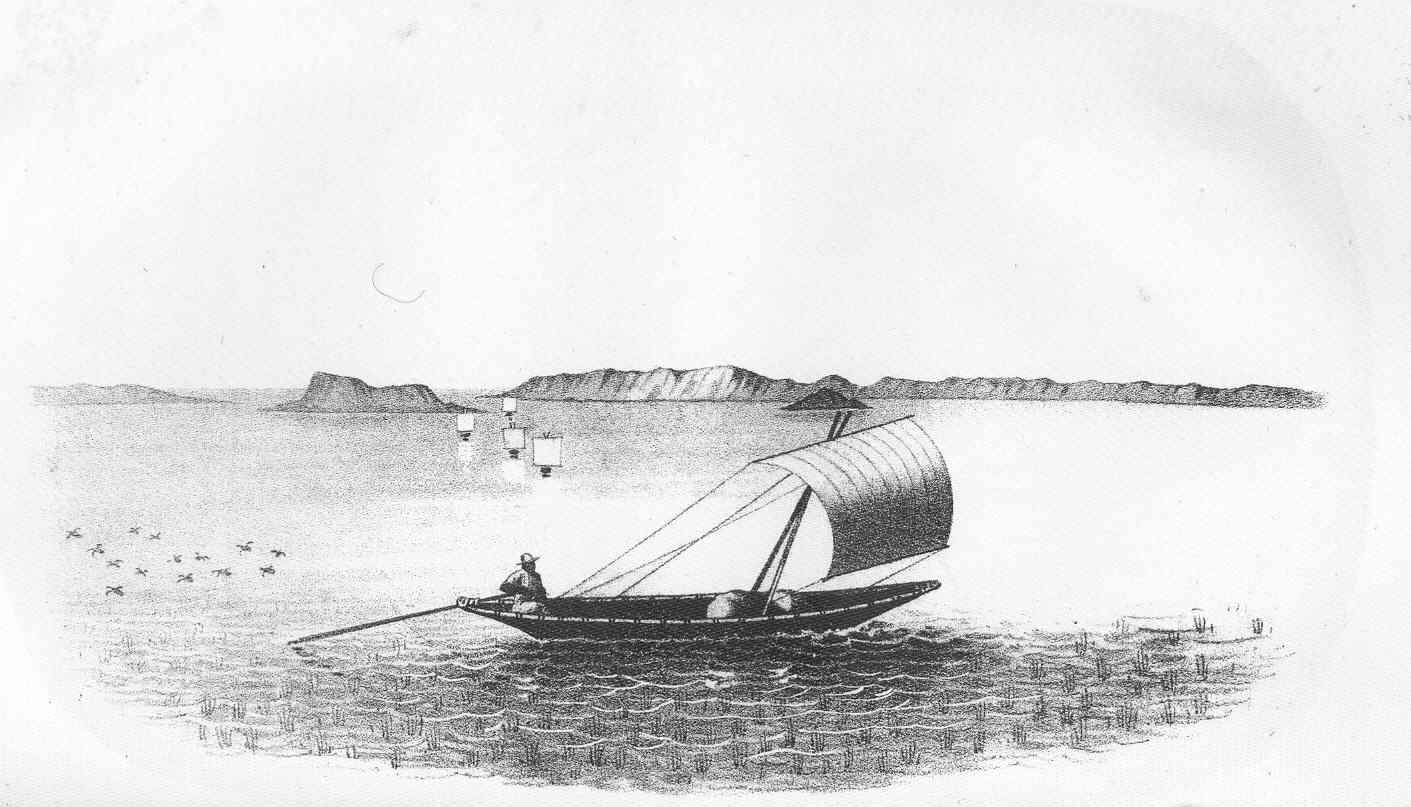 Titicaca Balsa off Puno Subject: Fishing boats--Peru, Puno (Beru : Dept.), Sailboats Geographic Subject: Peru--Puno Tag: Vessels